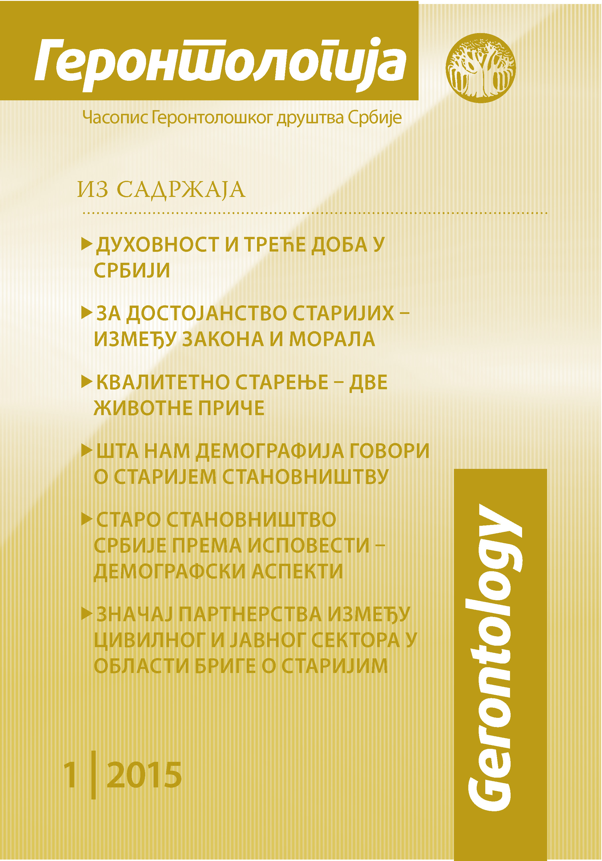 Cover of journal Gerontologija , No 1, 2015, Serbia